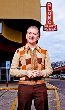 Tim League, in front of Alamo Drafthouse Cinema South Lamar. Photo credit: Annie Ray